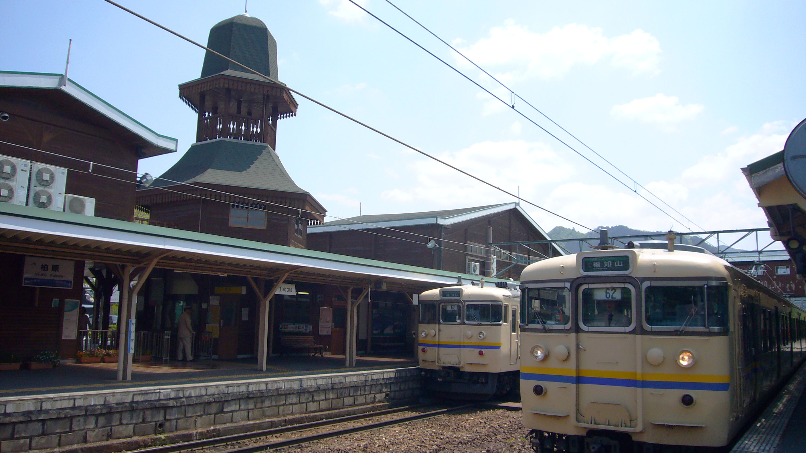 JR Kaibara Station in Tamba, Japan